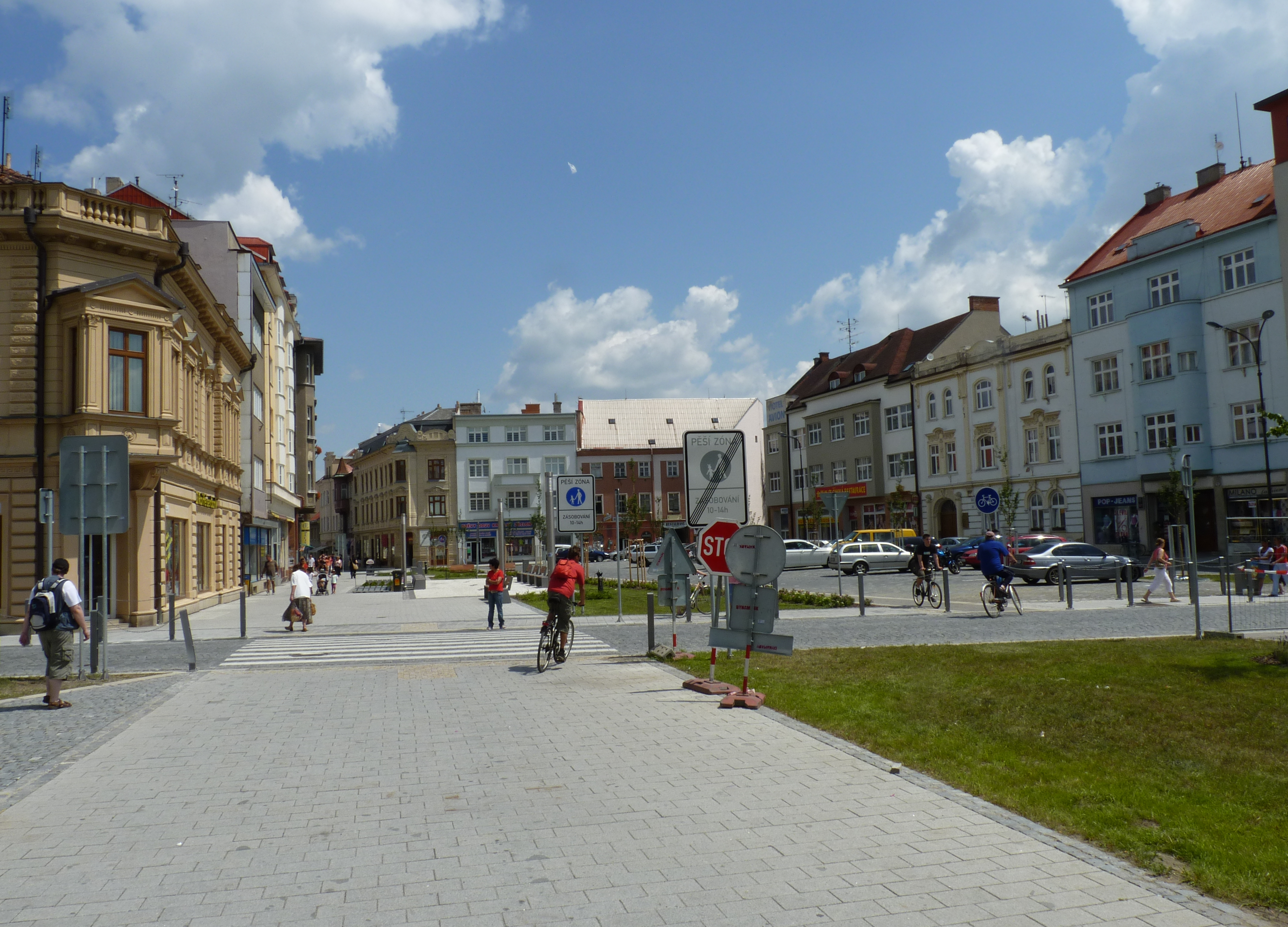 Prostějov. Prostějov District, Olomouc Region, Czech Republic. Náměstí Edmunda Husserla square.